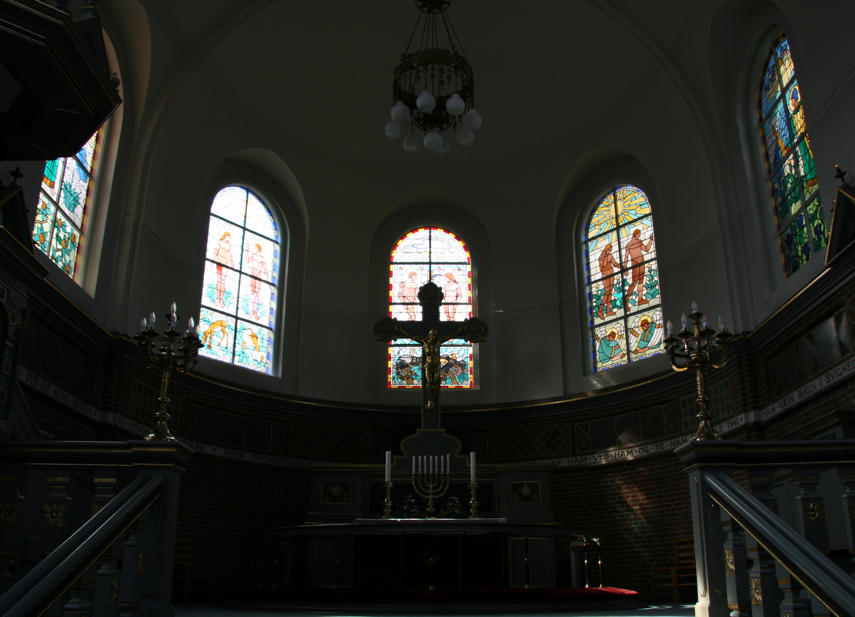 Luther Kirken in Copenhagen, Denmark. Stained glass windows by Ernestine Nyrop (1888–1975) depicting the Fall of Man.